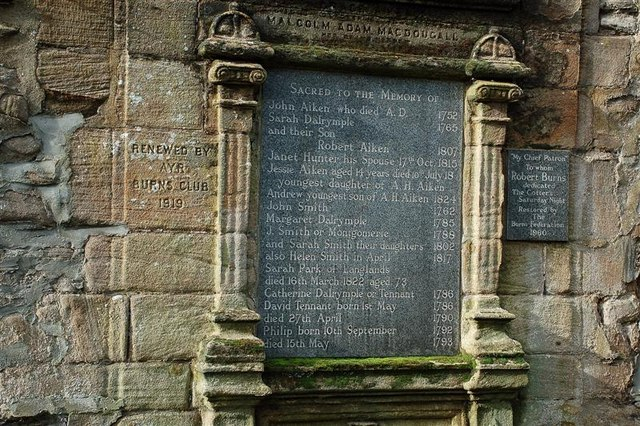 A Restored Memorial In the Auld Kirkyard Most of the Auld Kirkyard's old headstones, being made from soft sandstone, have been heavily weathered and are now difficult to read. A few have been restored, including this special one which commemorates Robert Aiken, the first patron of Robert Burns. This memorial has been restored twice, by the Ayr Burns Club in 1919, and the Burns Federation in 1960.